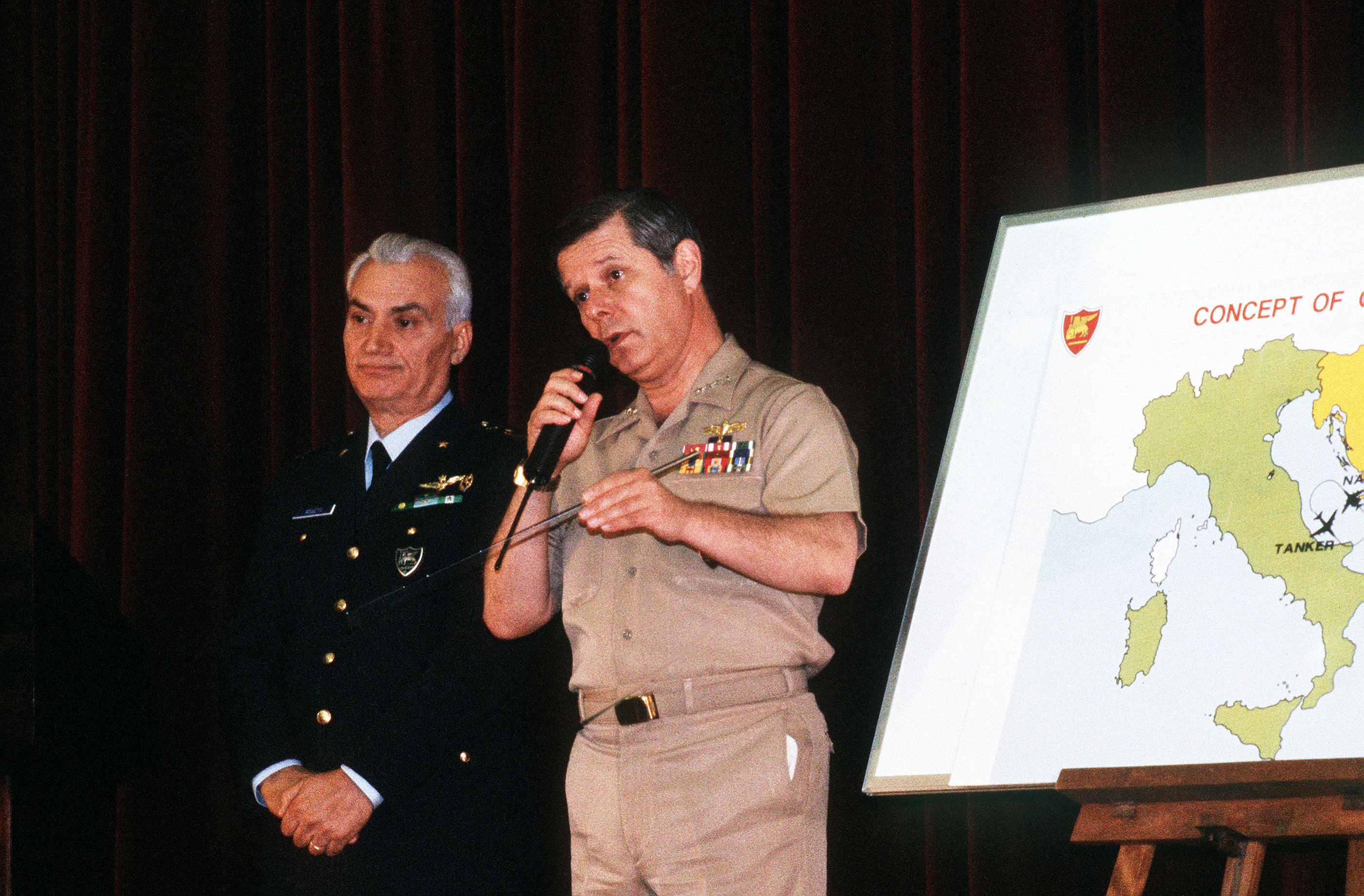 Adm. Jeremy M. Boorda, commander-in-chief, U.S. Naval Forces, Europe, and Allied Forces, Southern Europe, and Lt. Gen. Antonio Rossetti, commander-in-chief, 5th Allied Tactical Air Force (5th ATAF), field questions from the press during a press conference marking the opening of Operation Deny Flight, the enforcement of the United Nations-sanctioned no-fly zone over Bosnia and Herzegovina. The press conference is taking place in the 5th ATAF headquarters.